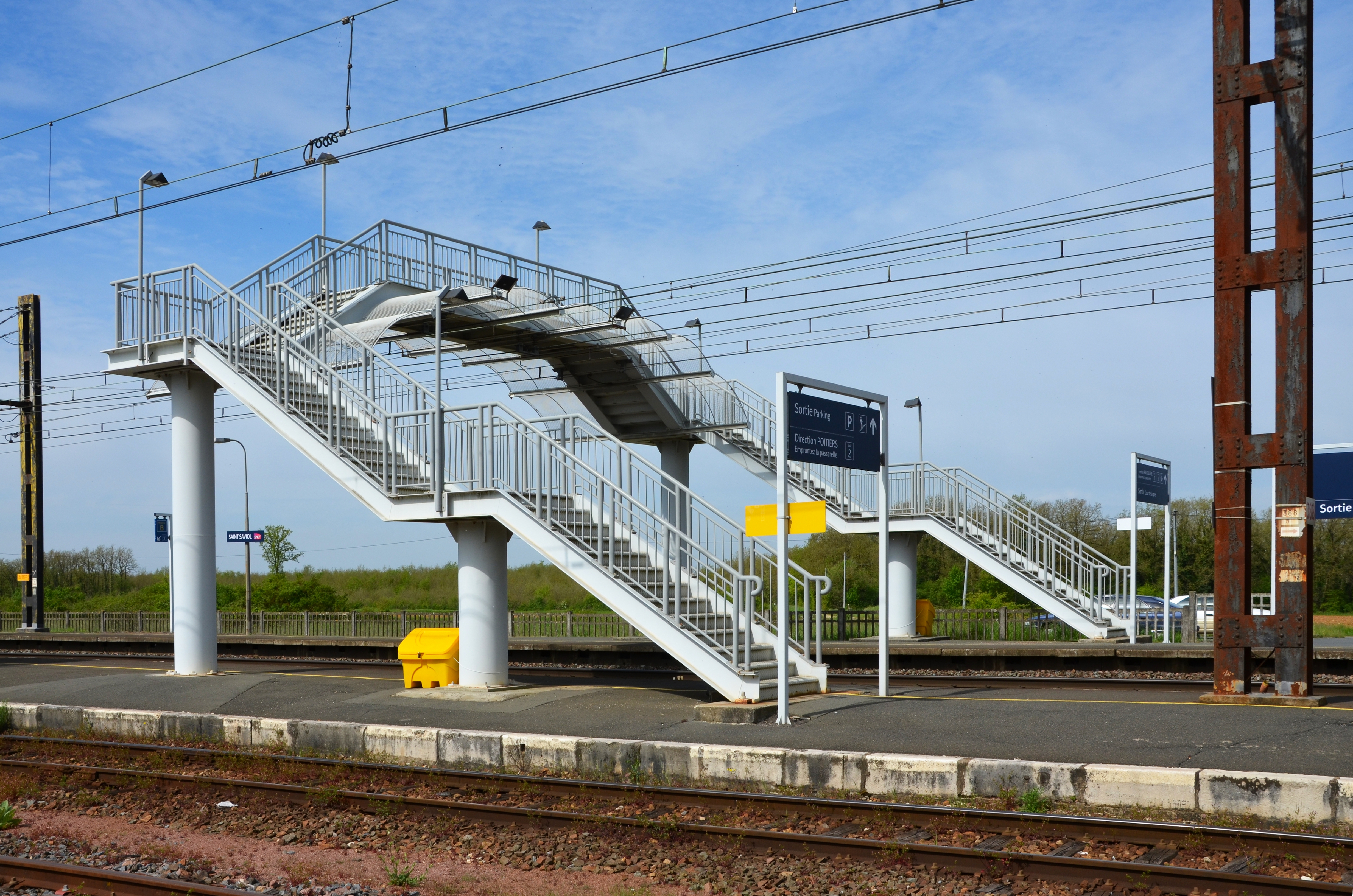 Skyway above the railway line, Saint-Saviol station, Vienne, France.